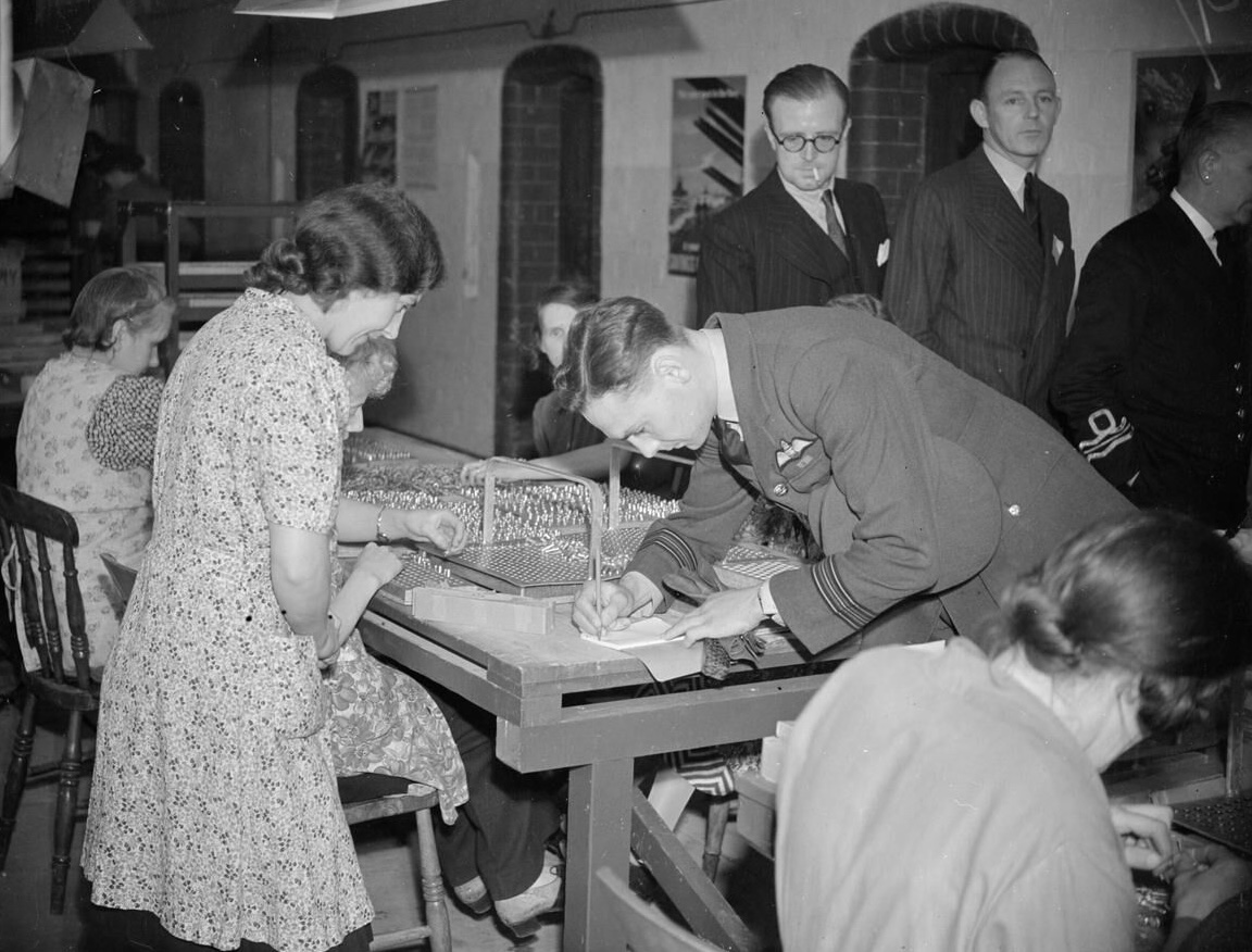 Squadron Leader J D Nettleton VC signing his autograph for a factory worker on a visit to open a munitions factory in Ruthin, North Wales.